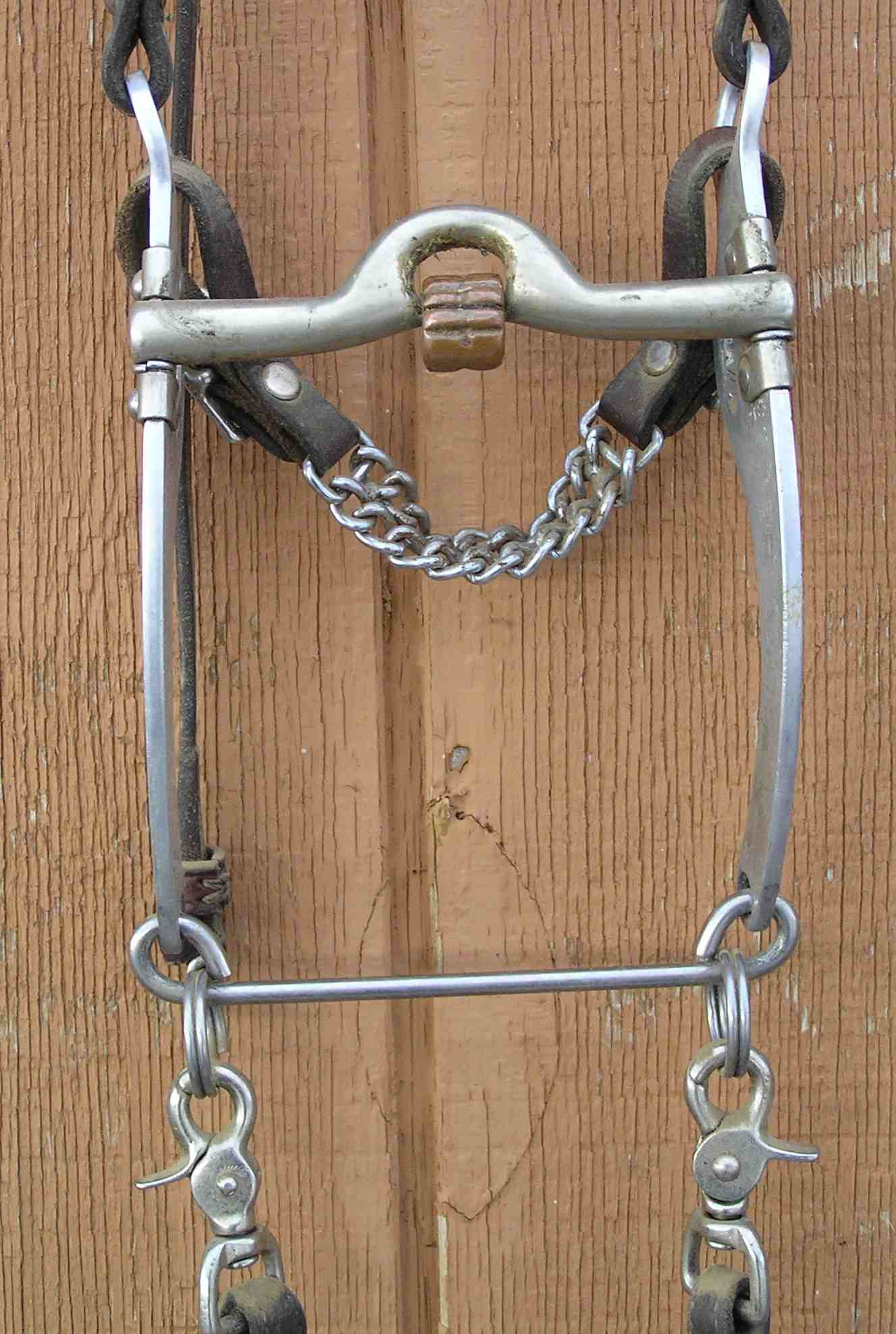 A low port curb with a cricket roller, loose jaw shanks. "Quick" brand bit